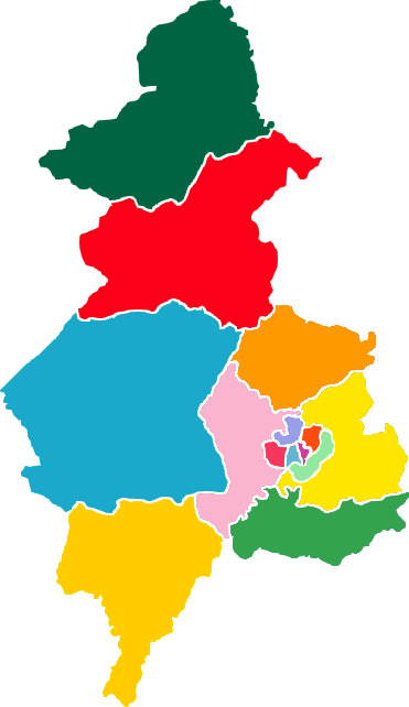 Subdivision of Shenyang